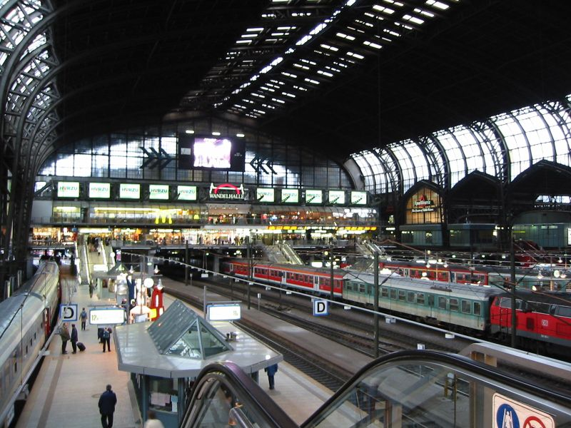 Main train station of Hamburg.